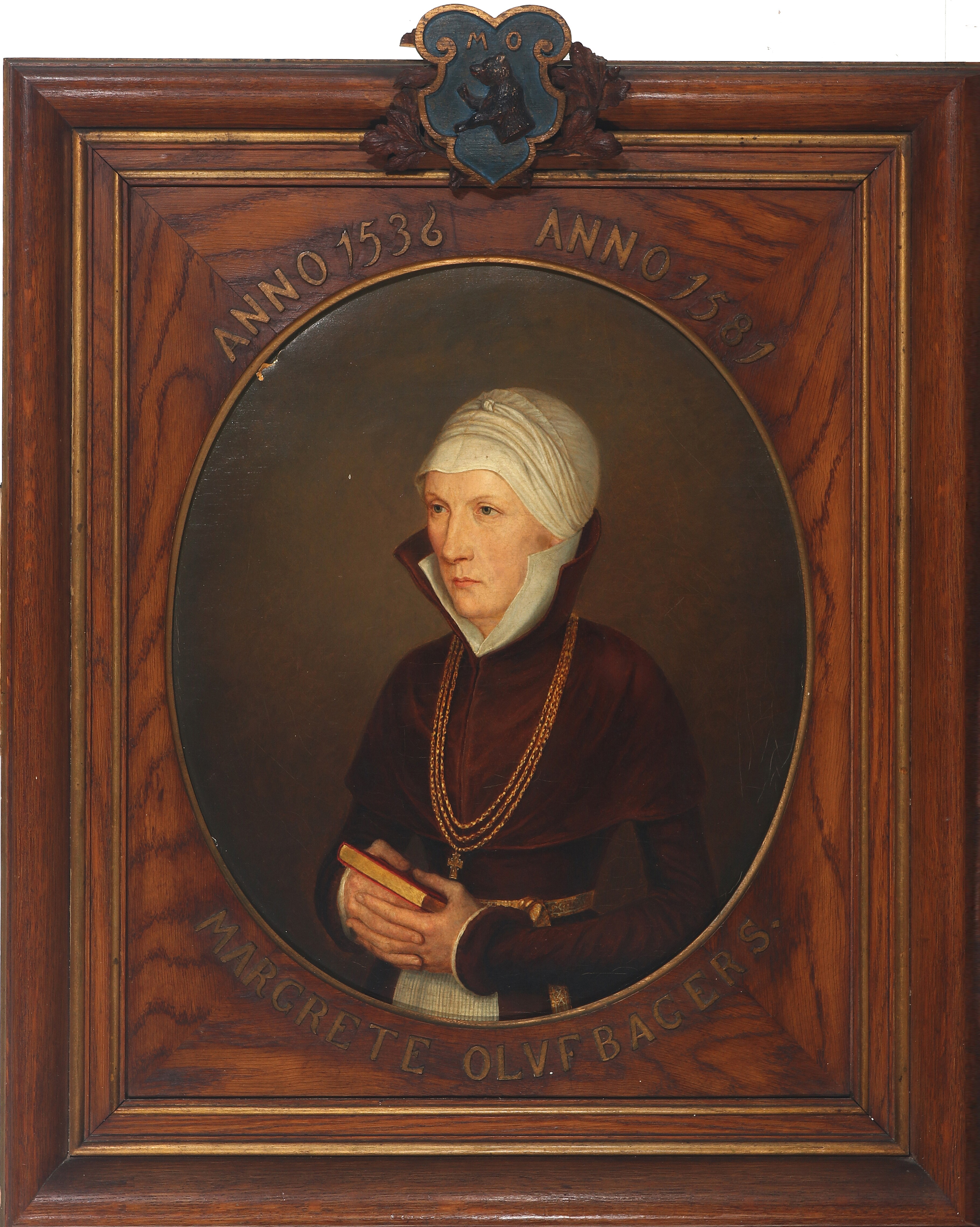 Behrends made a pair of paintings depicting Oluf Bager and his wife Margrethe. He typically based his work on funerary art and old prints.